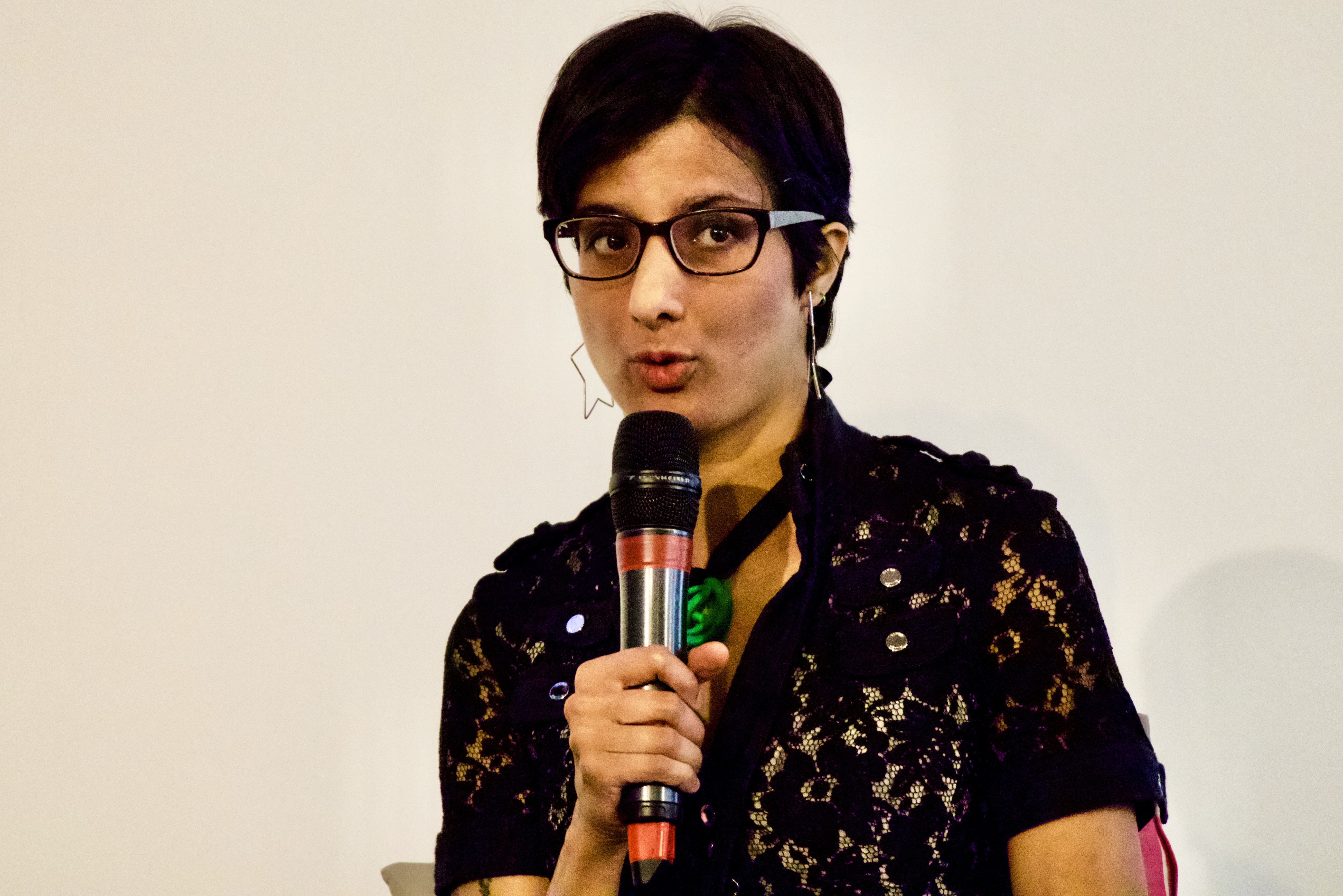 Zion Lights speaking about the relationship between Extinction Rebellion and the media at the News Impact Summit in Birmingham, in October 19